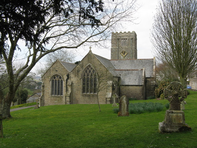 St Andrew's parish church, Tywardreath, Cornwall, seen from the east